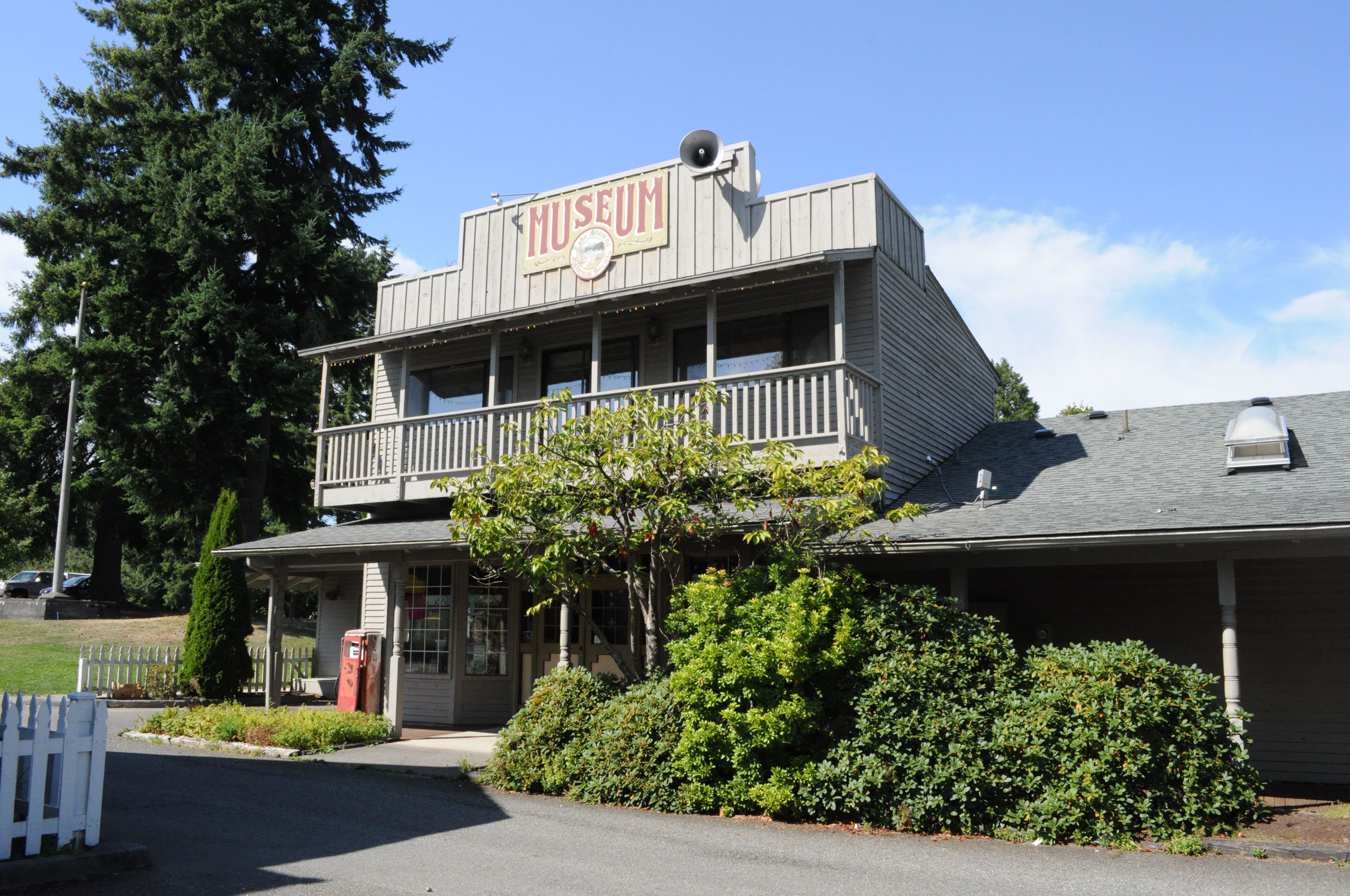 Museum, Lake Stevens, Washington, USA.